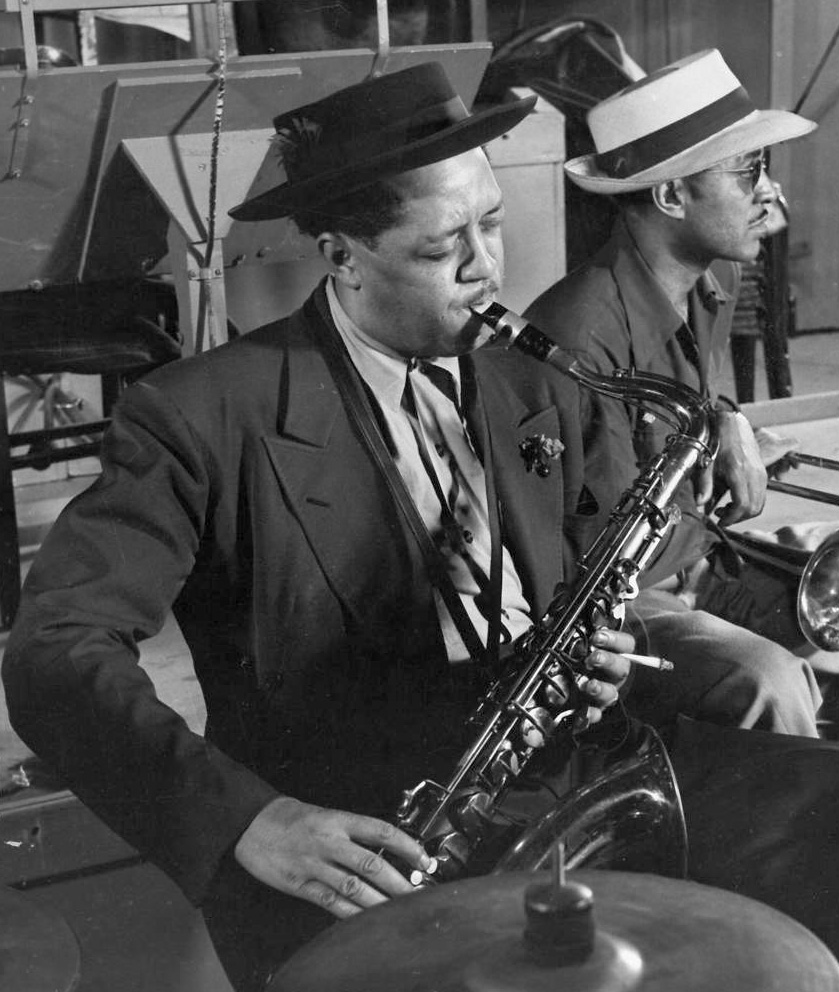 Photograph of Lester Young